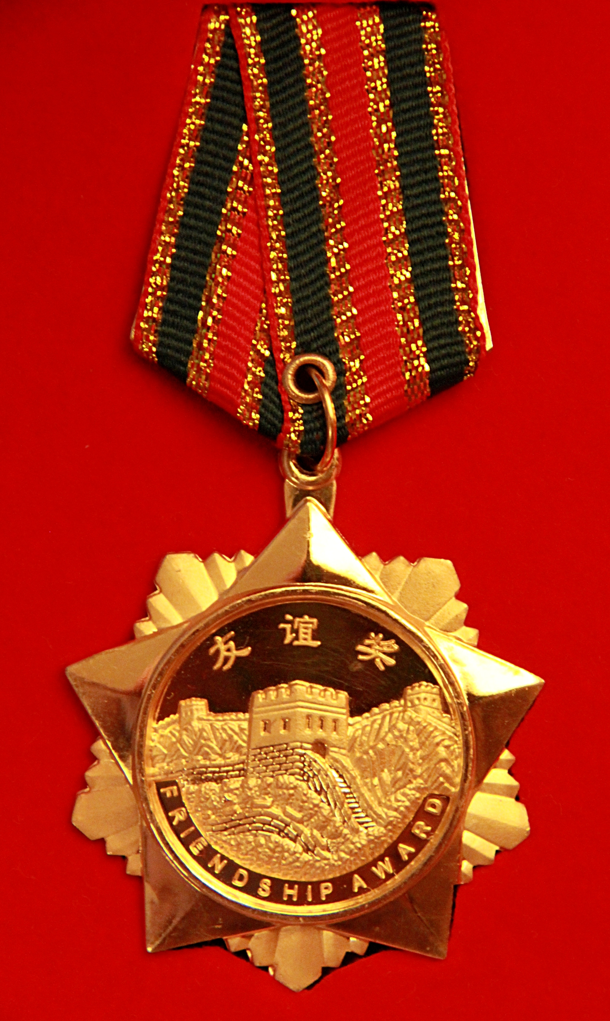 Photograph of the medal of the Friendship Award of the People's Republic of China.